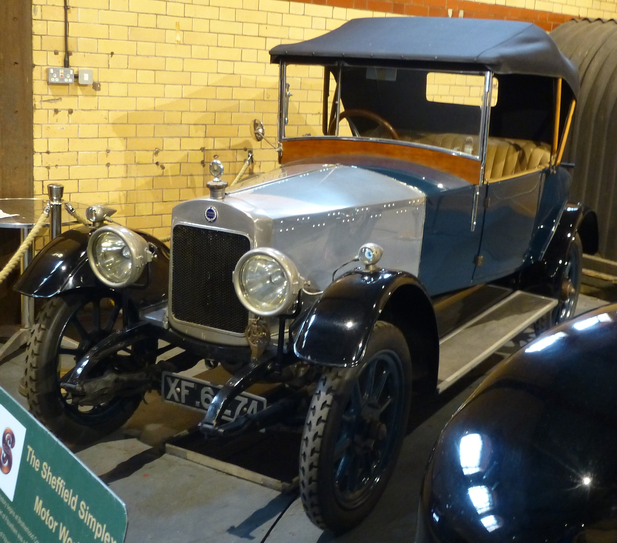 Charron-Laycock 10/25 HP 1922